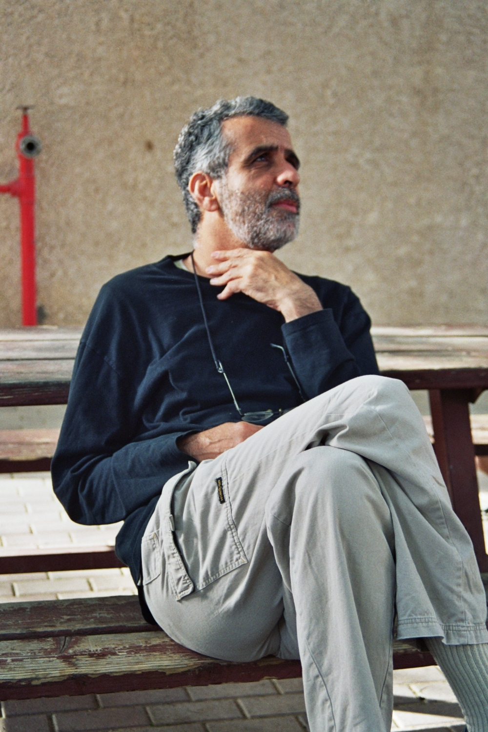 prof. Israel finkelstein at Sde Boker